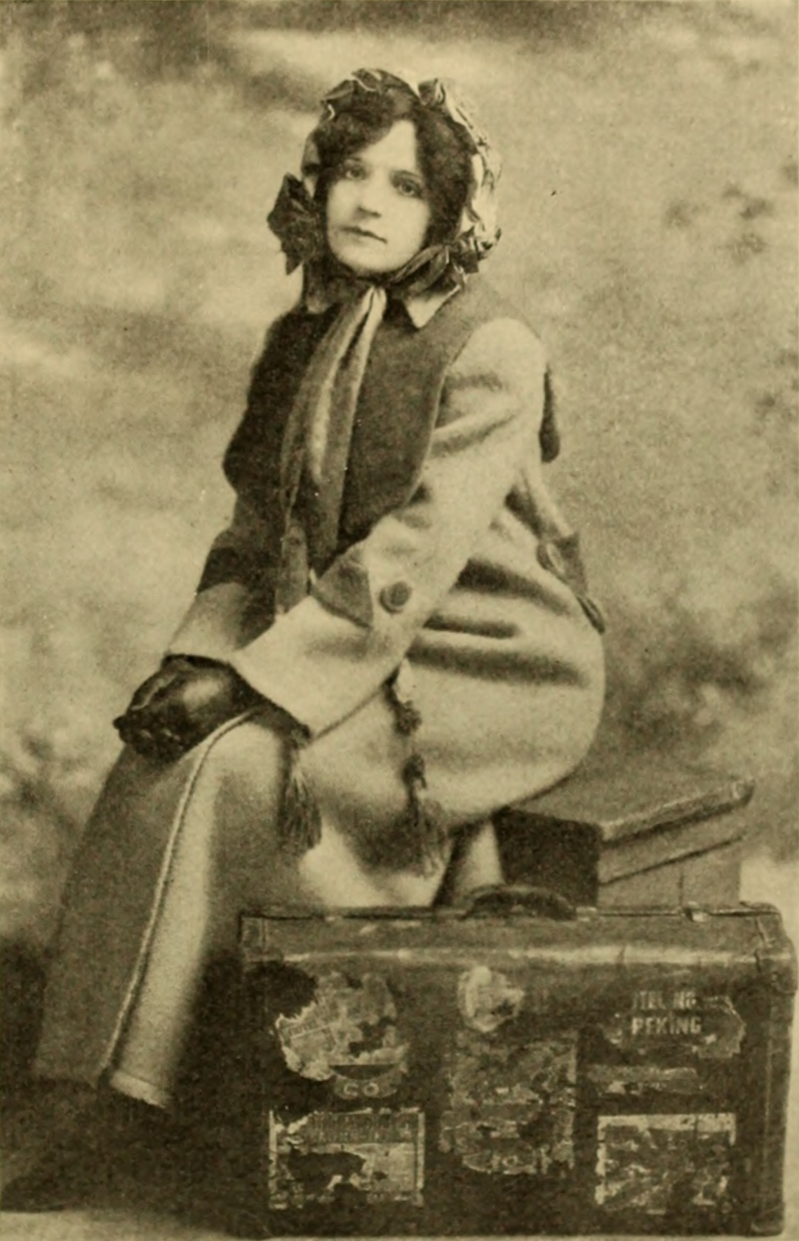 Gene Gauntier on luggage, end of 1912